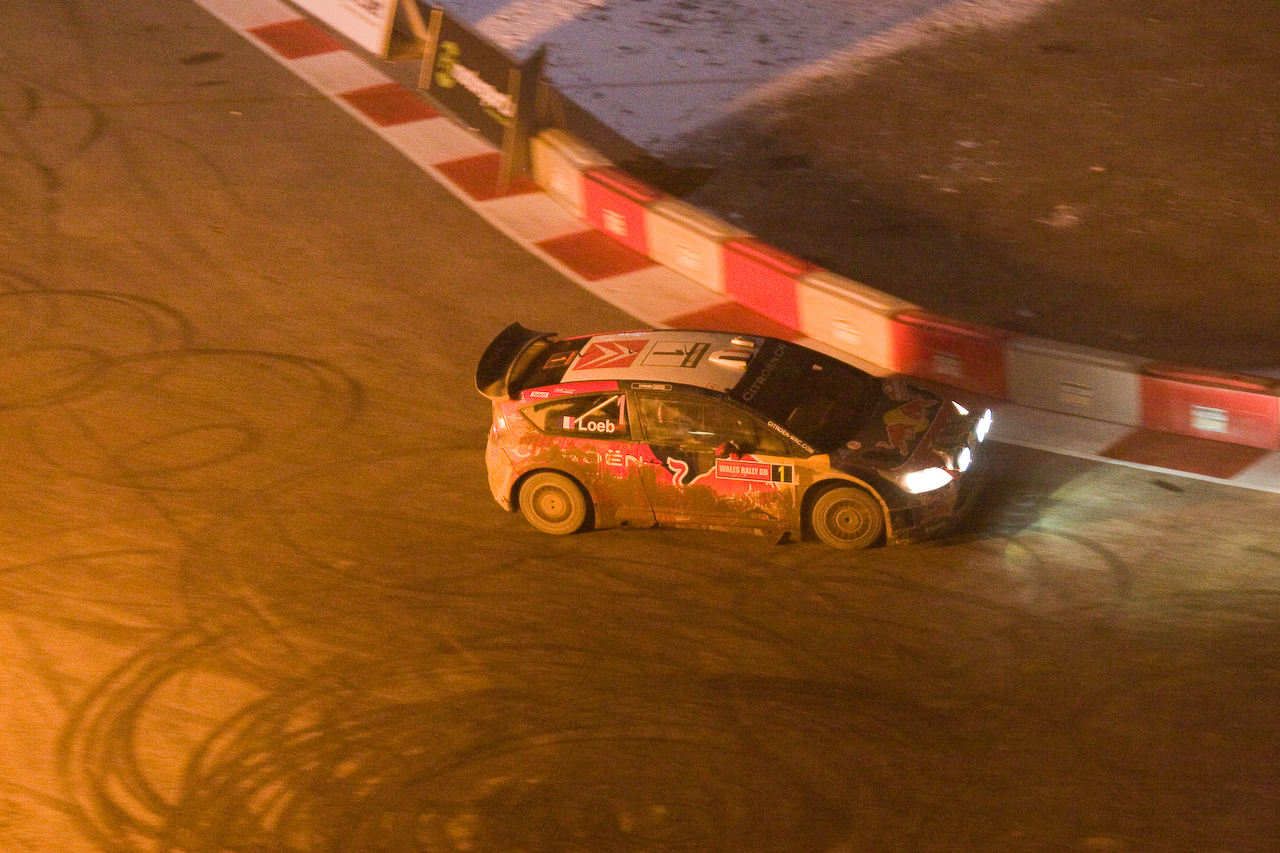 Sébastien Loeb at 2008 Wales Rally GB